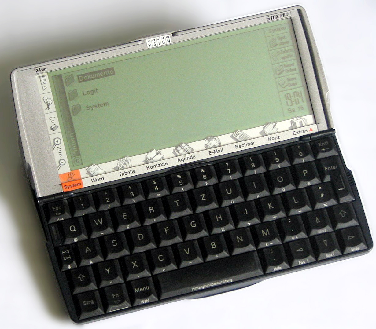 A Psion Series 5mx PRO 24MB German Edition